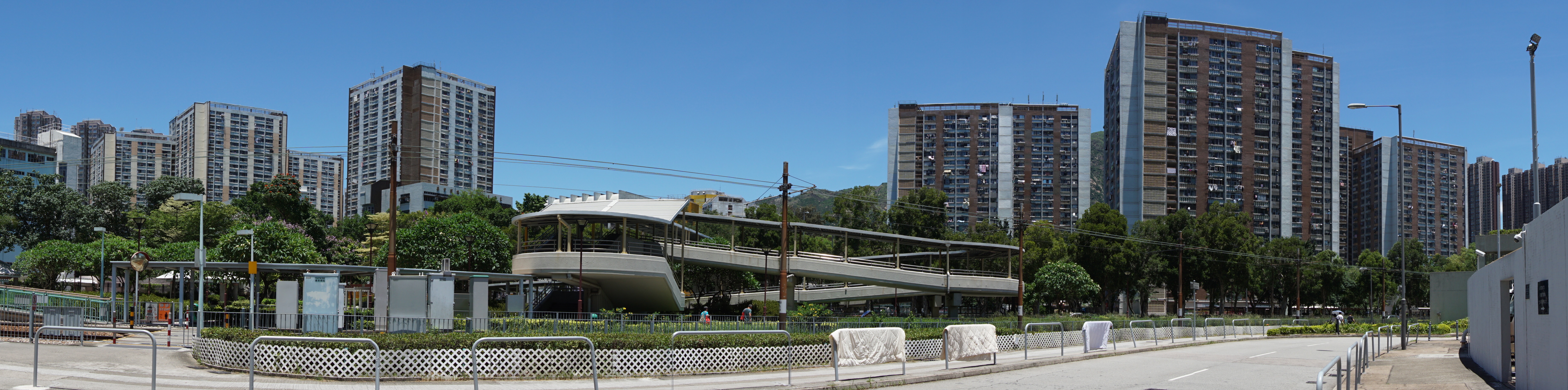 Wu King Estate in Tuen Mun, Hong Kong.